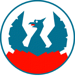 South East Asian Command insignia. Southeast Asia Command - A Phoenix rising from the fire. Most likely worn by only a few officers who held positions in this command of which CBI was a part. British Admiral Lord Louis Mountbatten commanded.